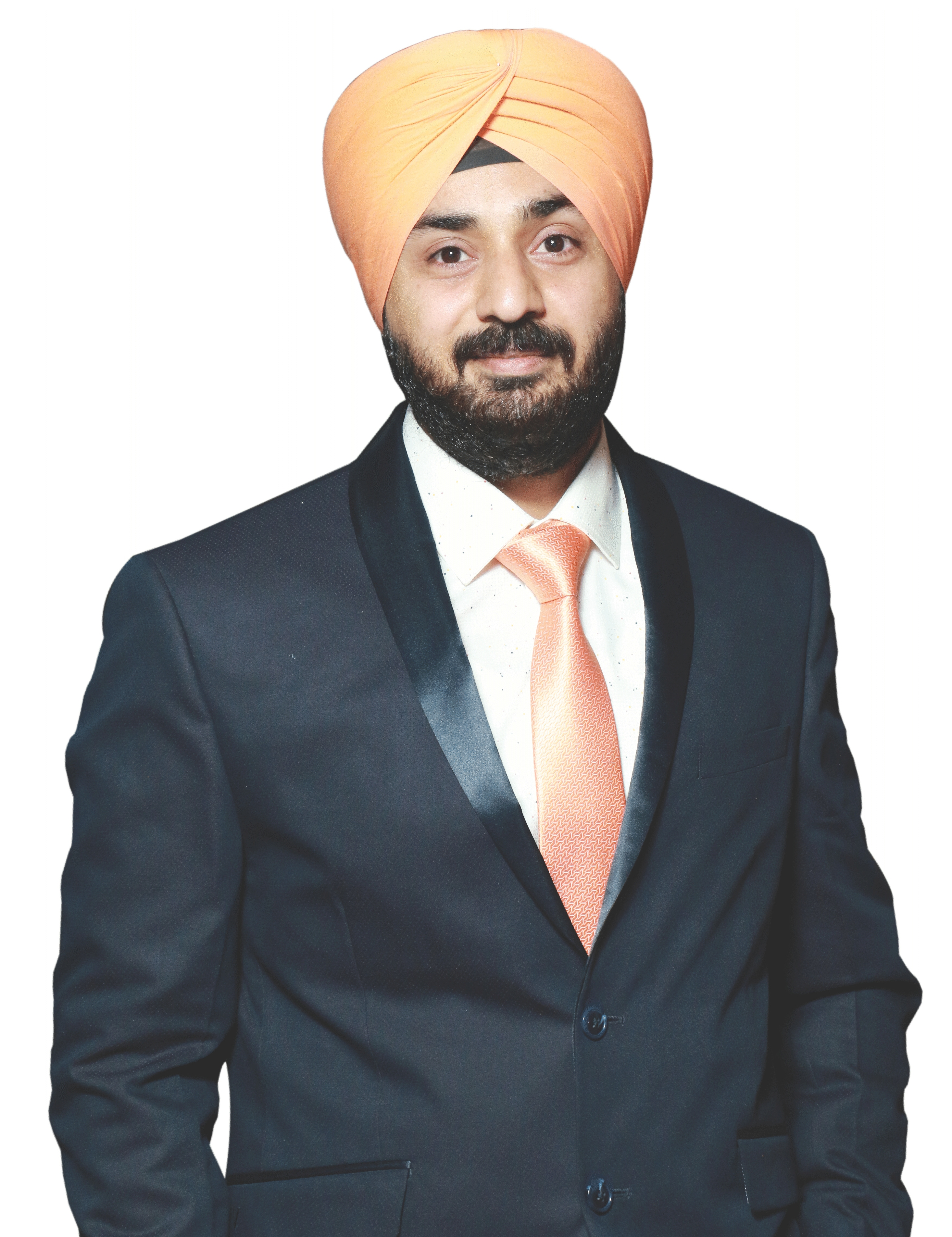 Picture of Sandeep Singh Rissam